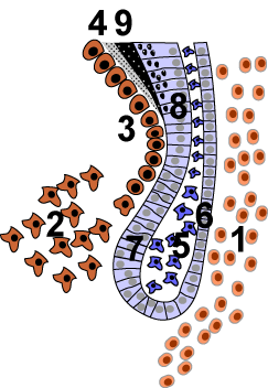 Schematic of the cervical loop area. Made by M. Tummers 2004